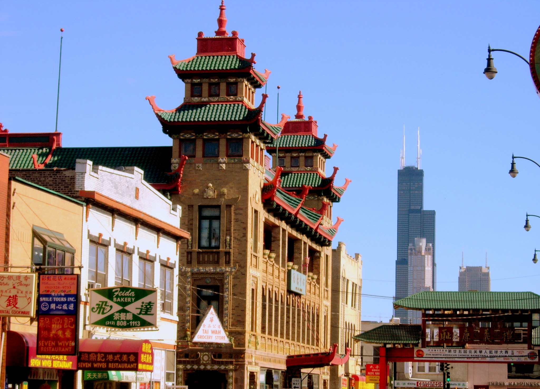 Chicago Chinatown. Northeast view along Wentworth Ave, including the Chinatown Gate, Pui Tak, and far-off Sears Tower, Chicago